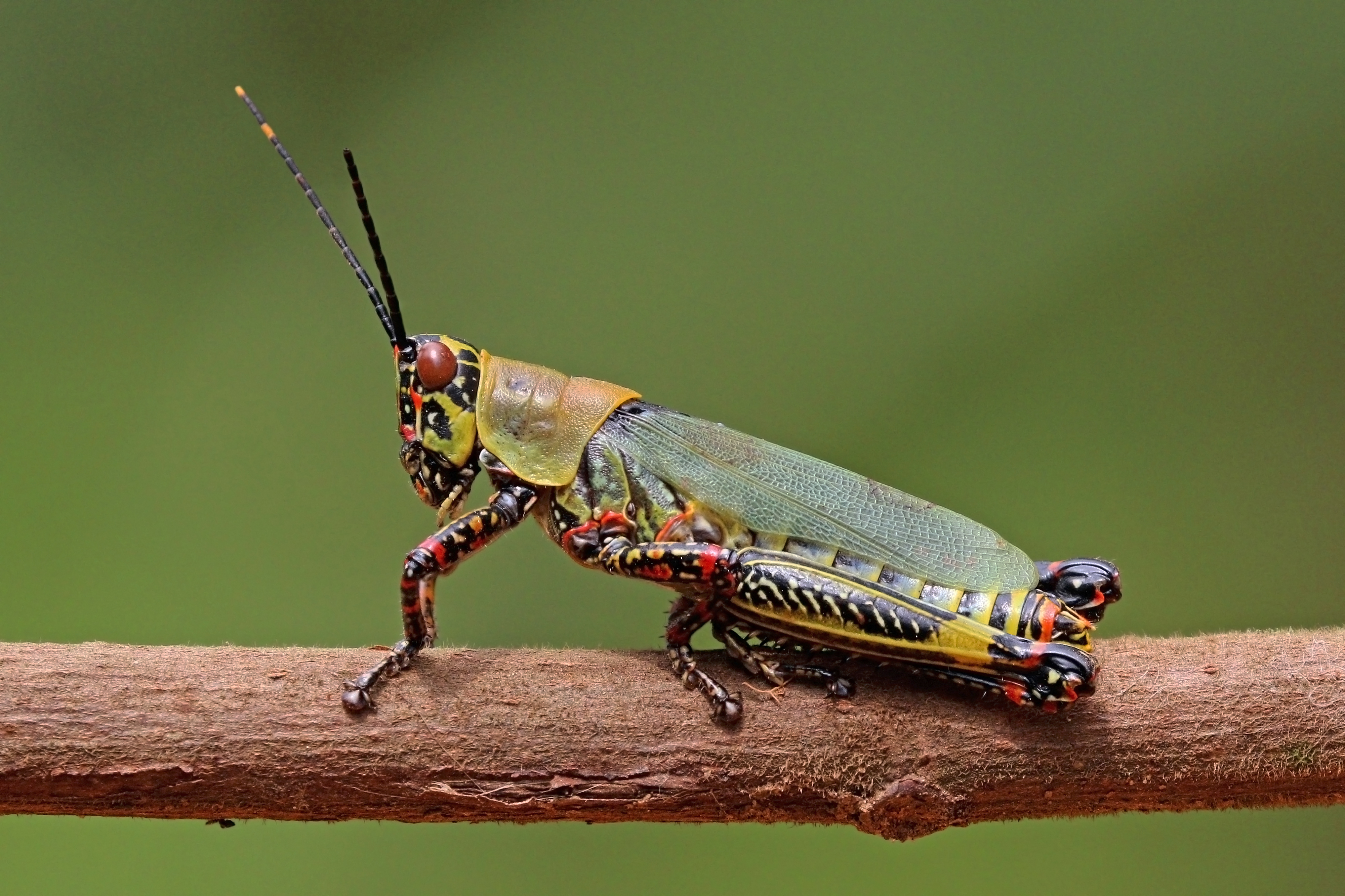 Variegated grasshopper (Zonocerus variegatus), female, Bobiri Forest, Ghana. Sunda: Simeut Zonocerus variegatus bikang, Leuweung Bobiri, Gana.